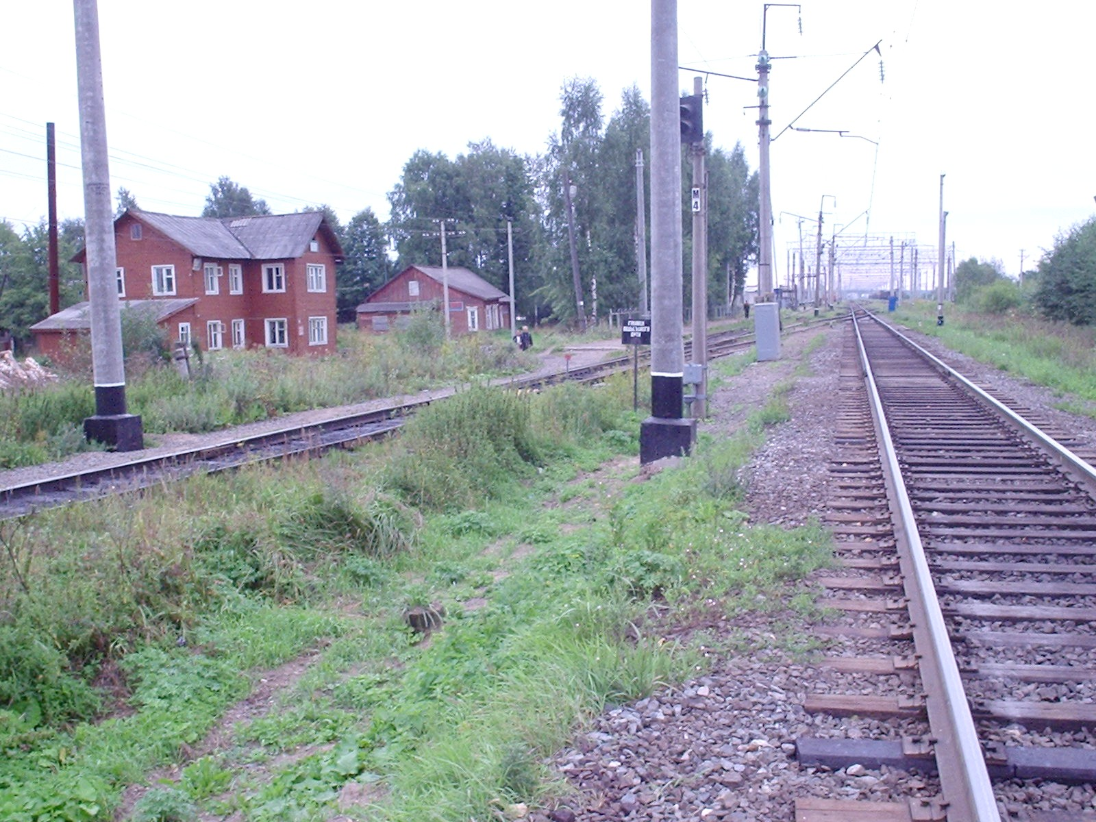 Vohtoga, Gryazovetsky District, Vologda Oblast